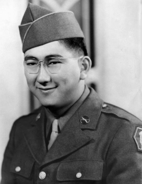 United States Army Private First Class Joe M. Nishimoto was awarded the Medal of Honor for his actions during World War II